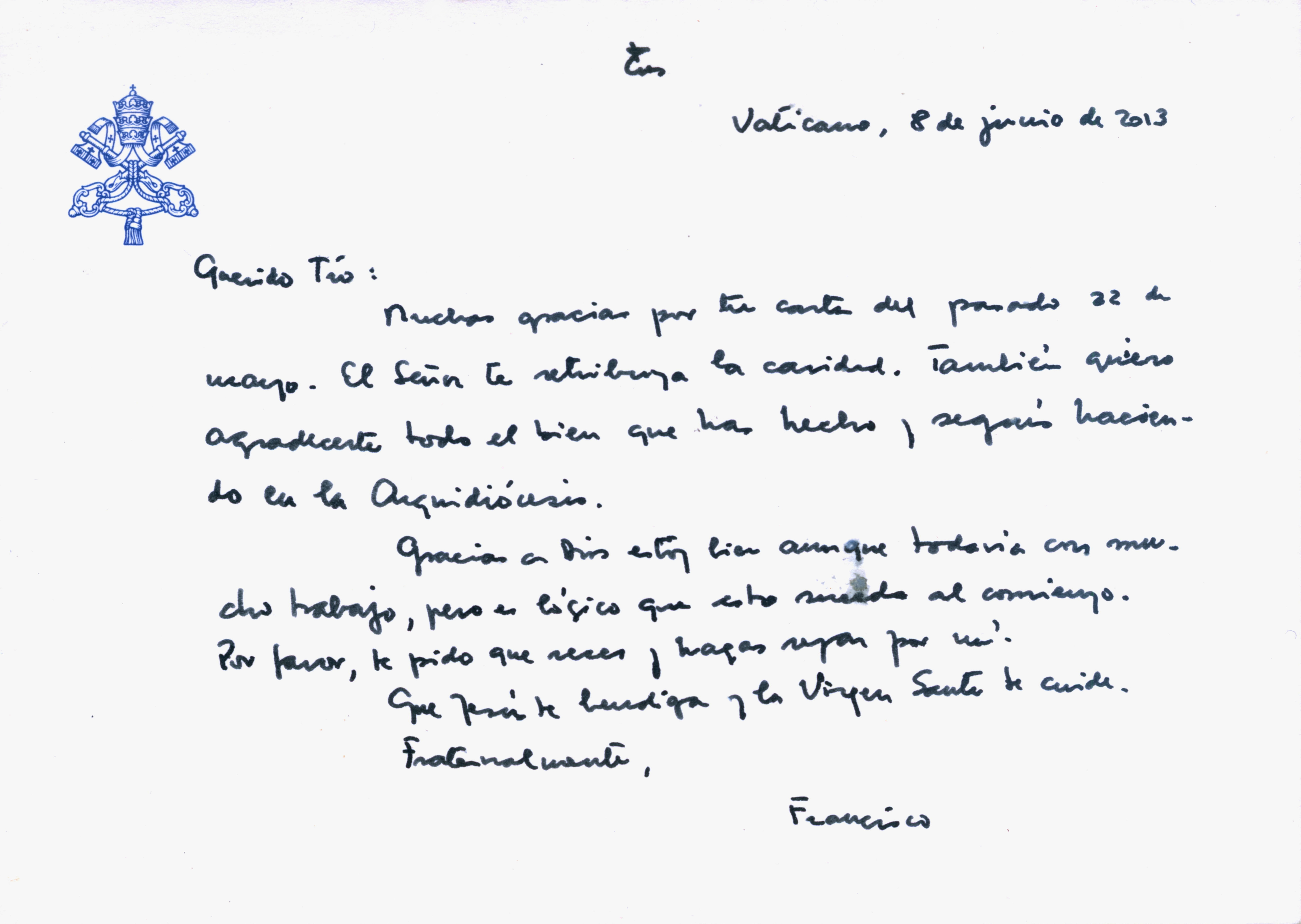 A hand-written letter sent by Pope Francis to Mgr Roberto Lella, chaplain of the Monasterio Santa Teresa de Jesús and former director of the pastoral healthcare in the Archdiocese of Buenos Aires. Pope Francis affectionately calls him “Tío” (Uncle). Dear Uncle,Thank you very much for your letter of May 22. May the Lord reward your love. I also want to thank you for all the good you have done and continue doing in the Archdiocese.Thank God I am fine, but I I have a lot of work to do, though it’s logical that this happens at the beginning. Please I ask you to pray for me and to ask others to pray for me. May Jesus bless you and the Holy Virgin take care of you. Fraternally yours,Francis